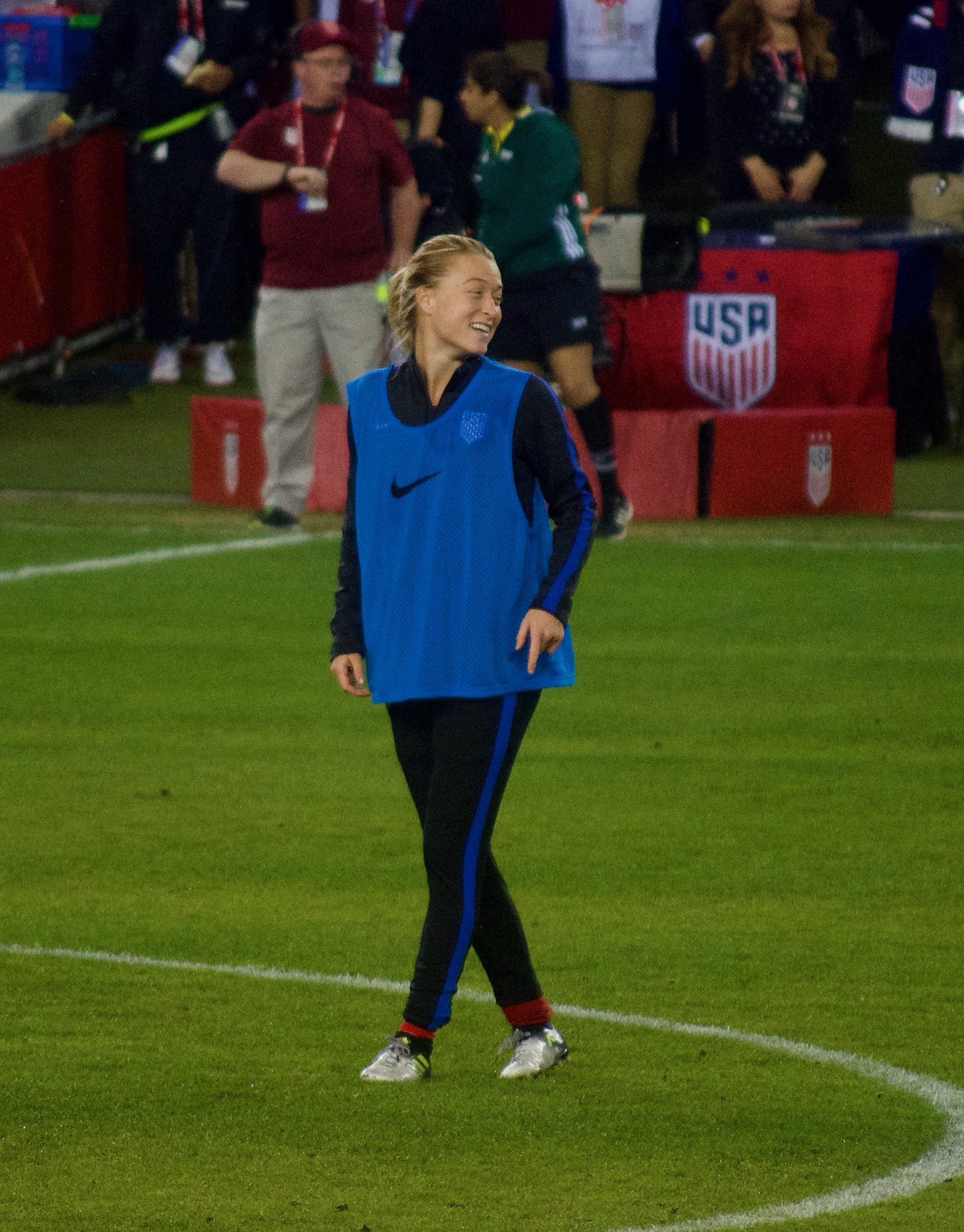 Emily Sonnett warming up at half-time in a friendly at Avaya Stadium, San Jose, California, 12 Nov 2017.